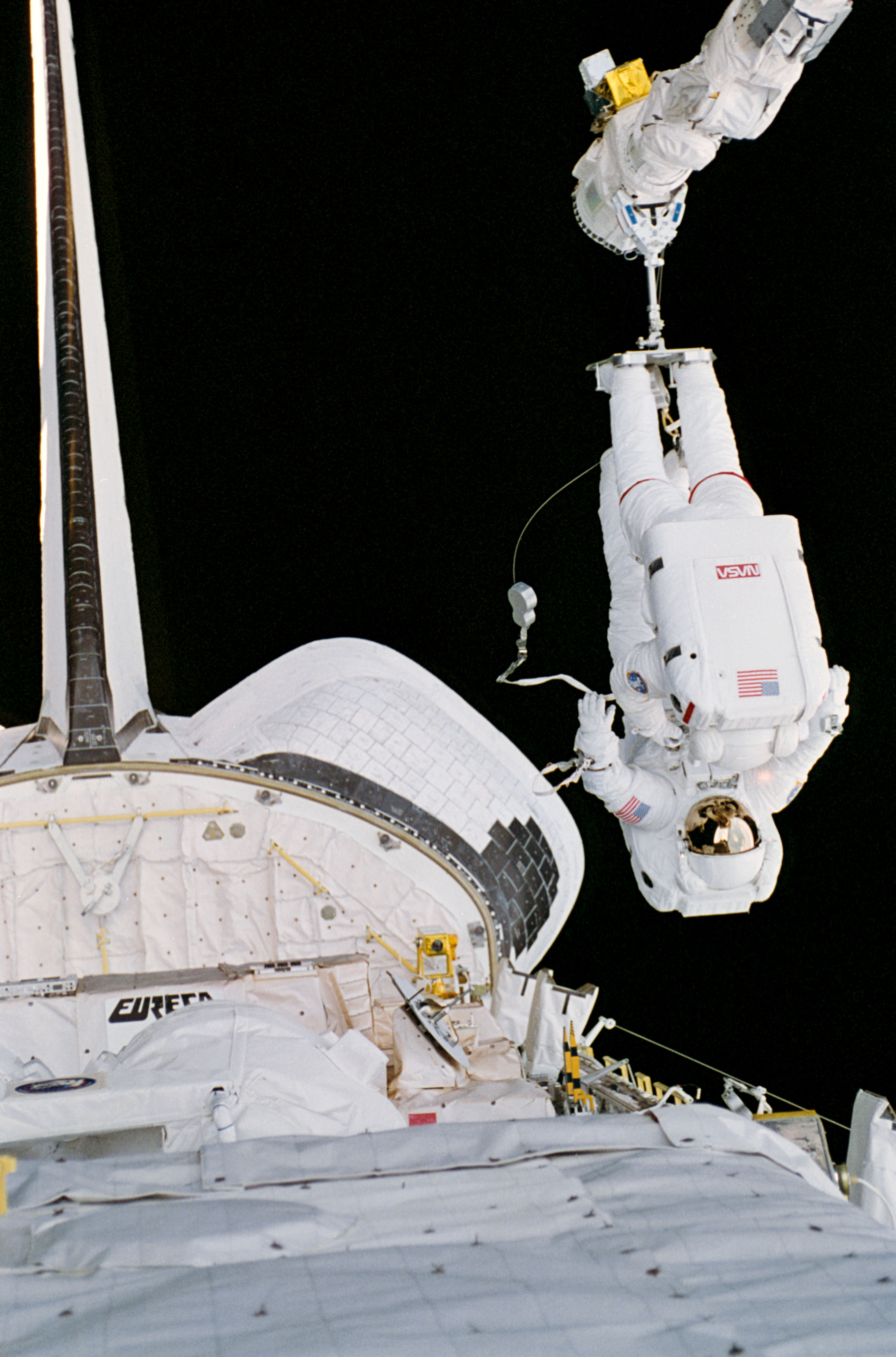 Upside down in relation to the Orbiter, Mission Specialist and Payload Commander David Low and Peter Wisoff, wearing extravehicular mobility units, simulate handling of large components in space. Above the payload bay, Low, anchored by a portable foot restraint on the remote manipulator system end effector, holds Wisoff and maneuvers him as if he were a large space component.